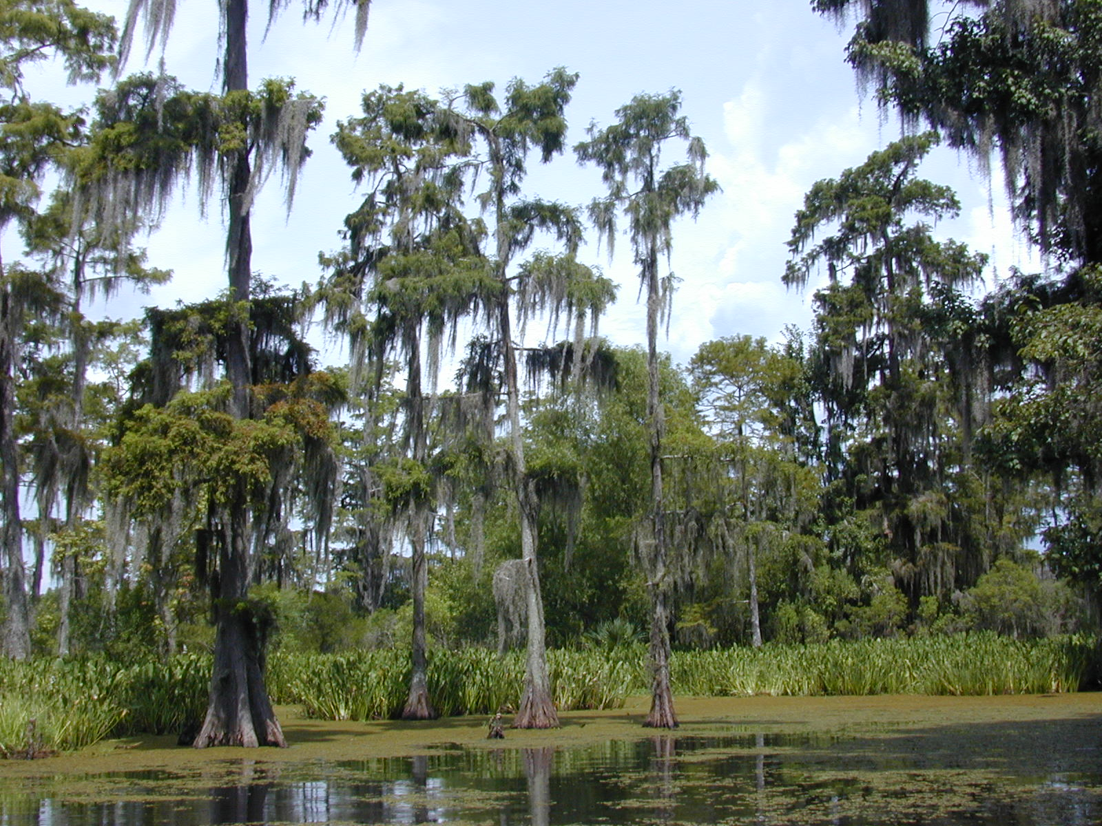 Bald Cypress (Taxodium distichum). From the swamps of southern Louisiana Photo by Jan Kronsell, 2004